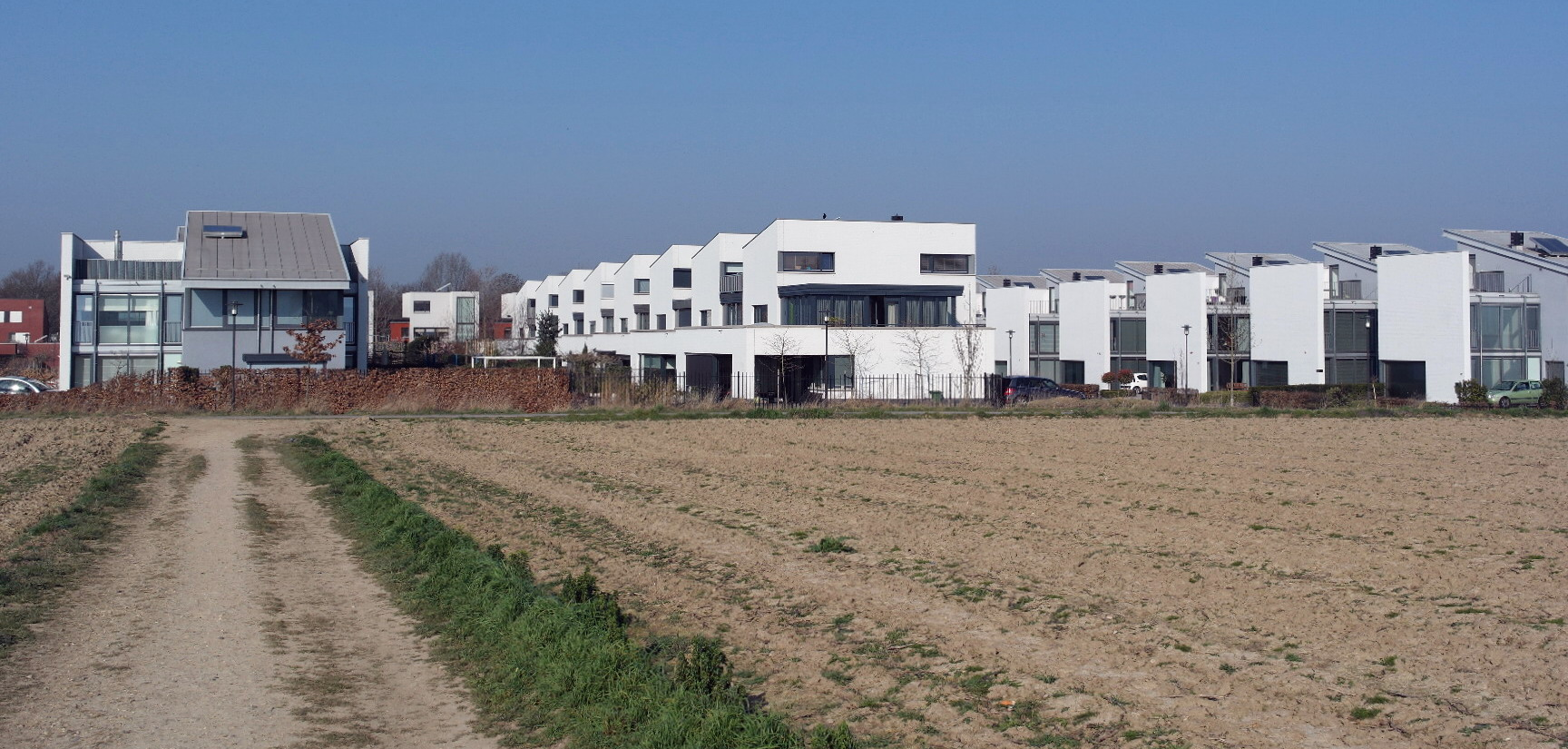 Maastricht, the Netherlands. View of Vroendaal, a relatively modern neighbourhood on the southeastern edge of Maastricht, near Heer.